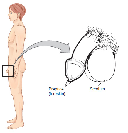 Derivative work from Figure_28_01_01.jpg